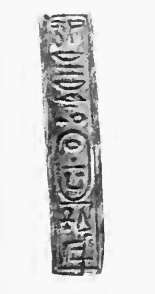 Cylinder bearing the cartouche of pharaoh Hotepkare (probably [Se]hotepkare Intef IV [ref: Jürgen von Beckerath, Handbuch der Ägyptischen Königsnamen (1999), p. 94]). 13th dynasty, second intermediate period.